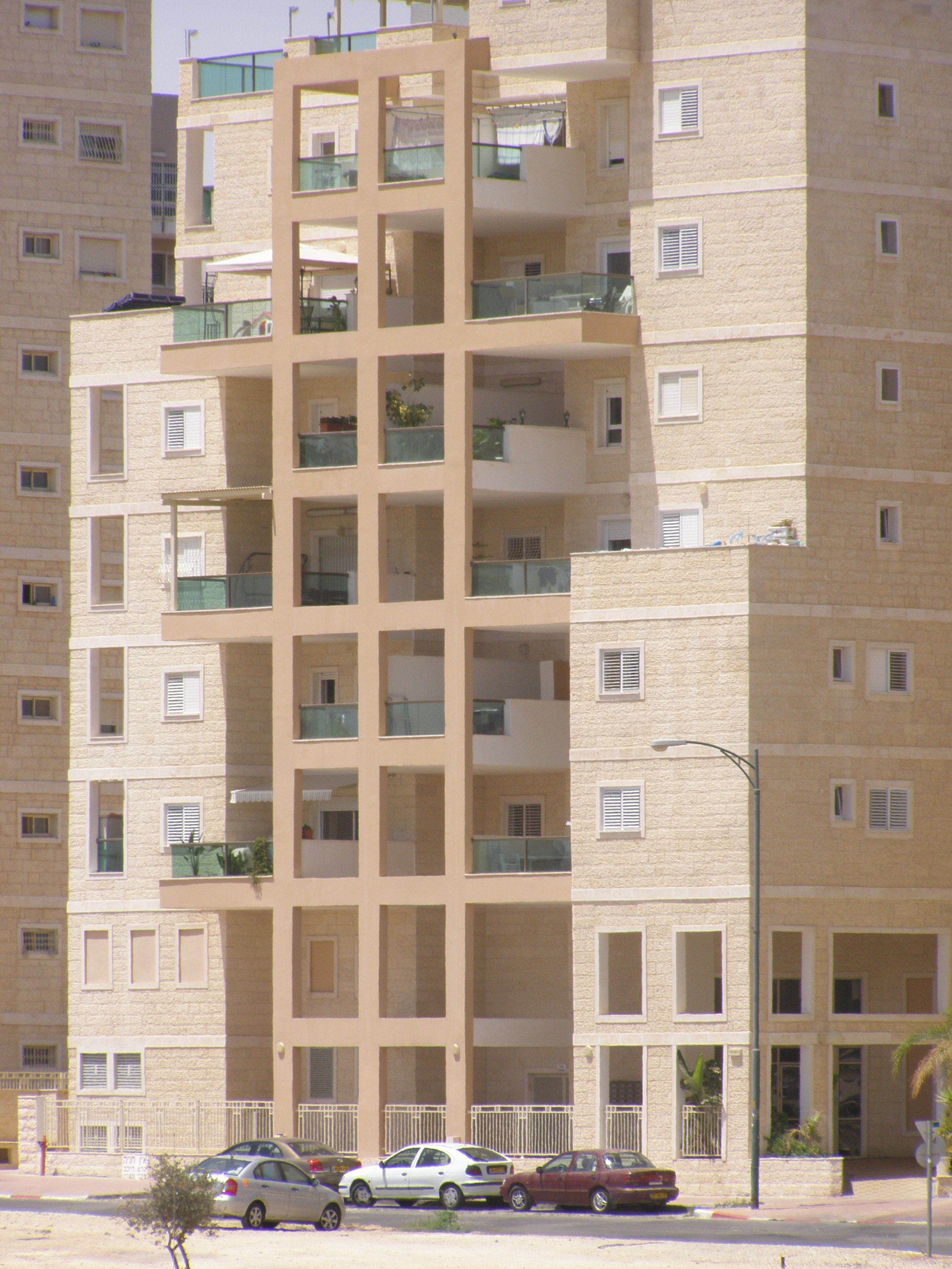 Beersheba, neighbour B, Ya'akov Cohen street